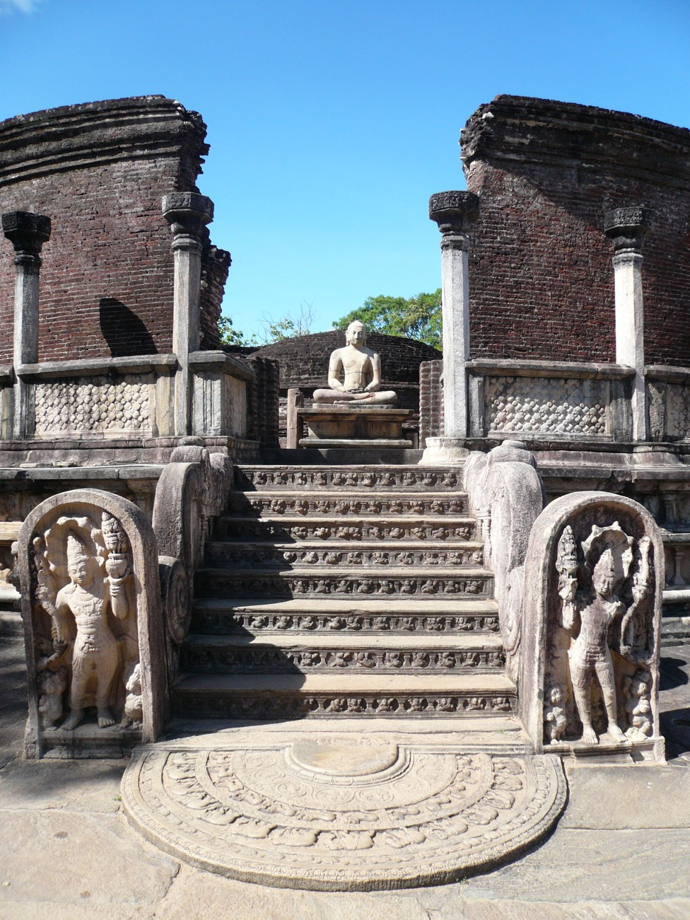 Vatagage in Polonnaruwa, Sri Lanka. The tooth relic of Buddha was once kept here. The stone carvings are of the highest quality in Polonnaruwa.